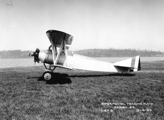 Boeing Model 64 on wheels